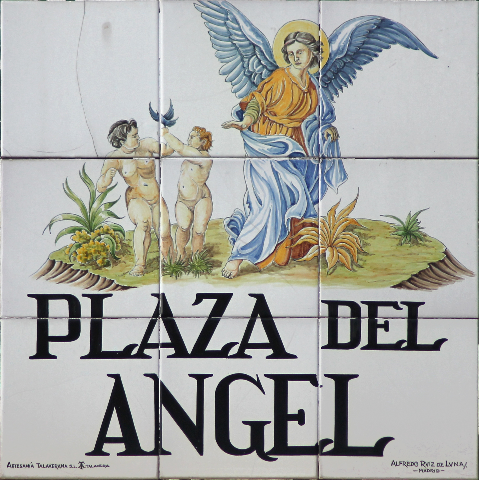 Sign of Plaza del Ángel (square) in Madrid (Spain).